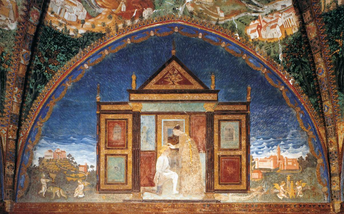 Bianca Crowns Pier Maria with a Laurel Wreath